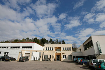 Picture of CERFAV, Vannes le Châtel